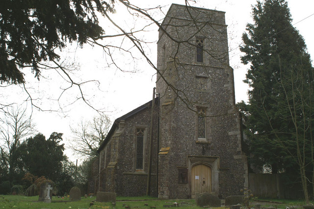 Dunkirk Parish Church This church was declared redundant some years ago and has since been converted into a dwelling. It was built, and the parish created, after the 1838 Courtenay Riots made clear that the area was very deprived.